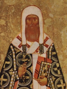 Peter of Kiev